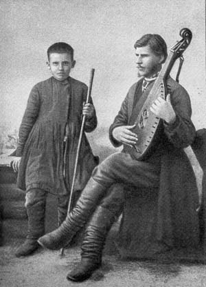 Ivan-Kuchuchura-Kucherenko with his guideboy.